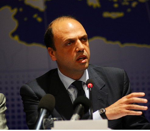 Angelino Alfano at the EPP Study Days in Palermo, 2011.